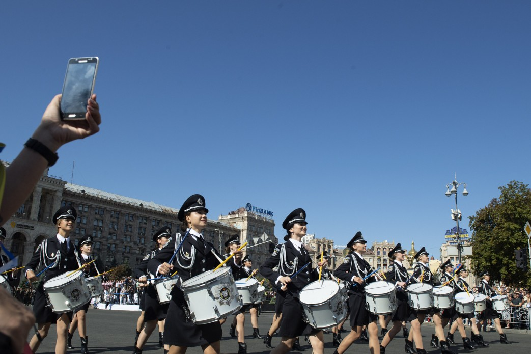 Speech by the President of Ukraine during the Independence Day festivities